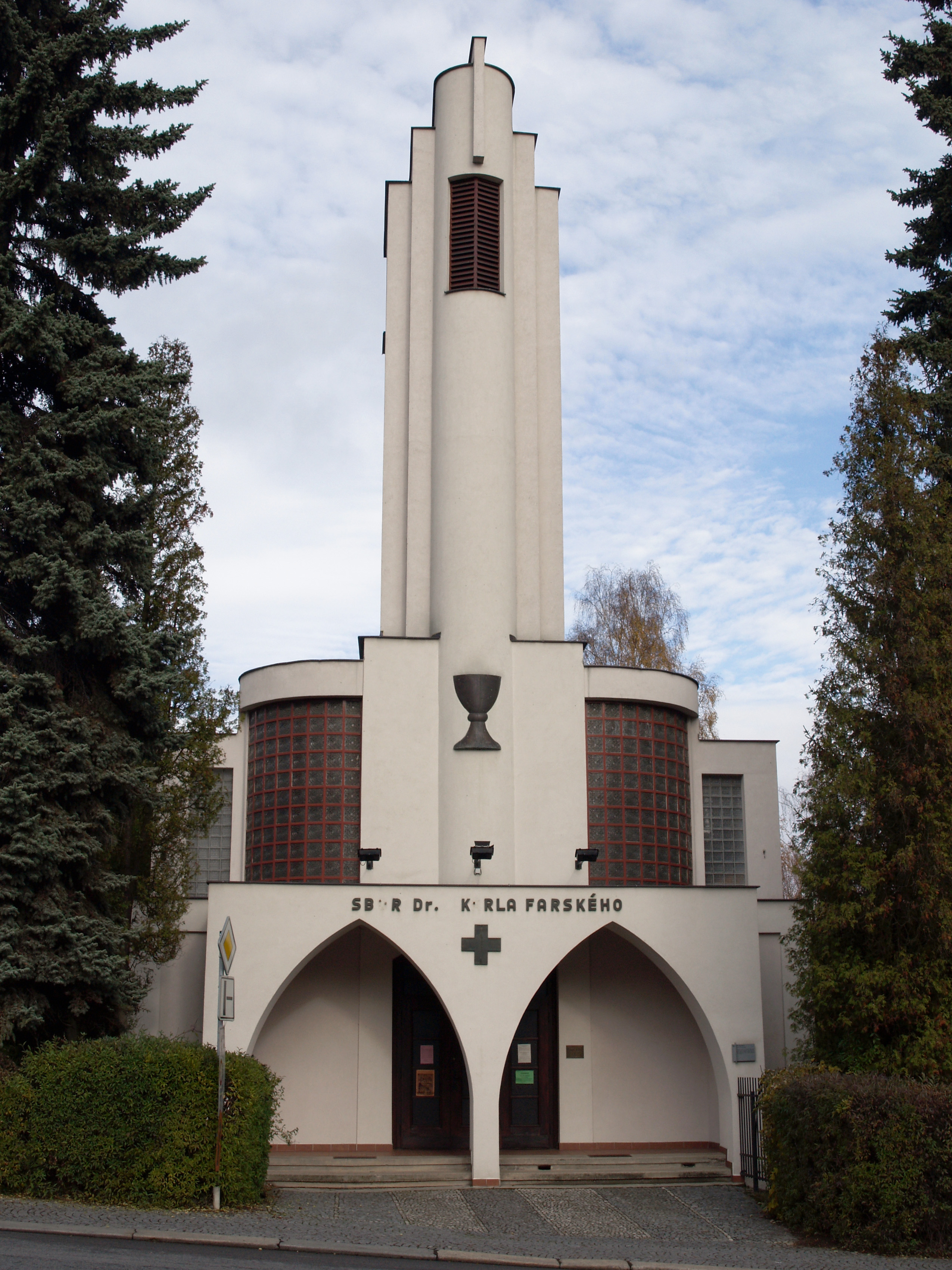 Church of “Congregation of Dr. Karel Farský” of Czechoslovak Hussite Church in Czech town Semily